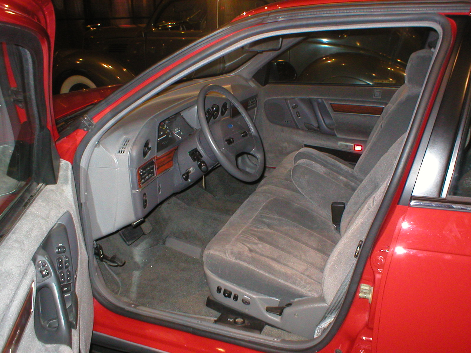 The interior of a 1986 Ford Taurus